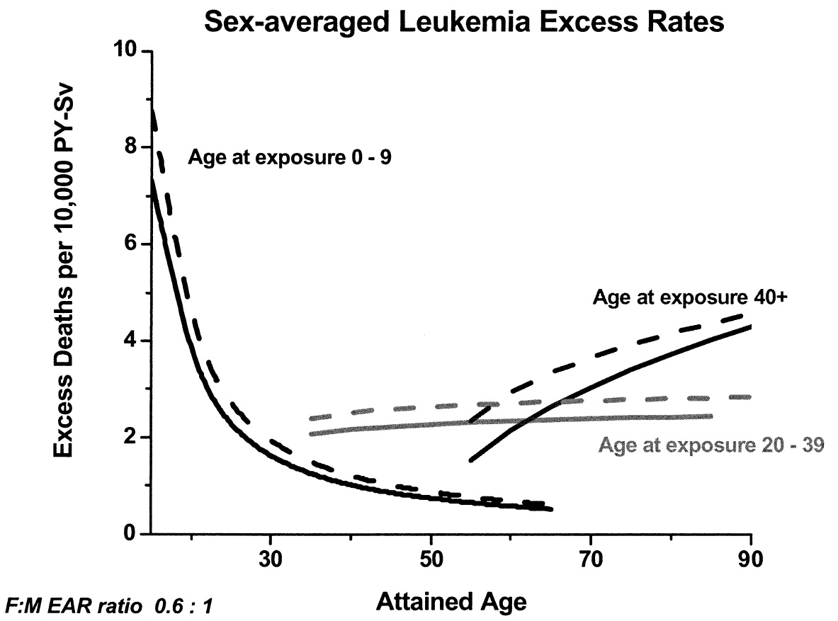 Radiation Effects Research Foundation (RERF) leukemia excess rate at 1 Sv dose, at different ages of exposure. Solid lines are used for risk estimates based on DS02 doses and dashed lines for DS86 doses